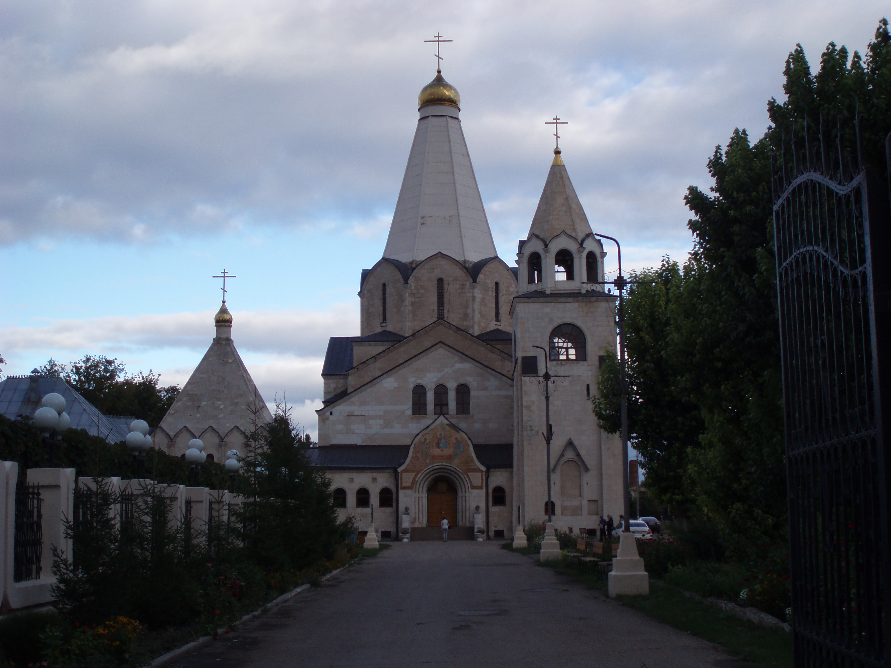 Holy Trinity Orthodox Church next to Bereg Hotel, Balakovo. Built in 1901–11 by Fyodor Schechtel.